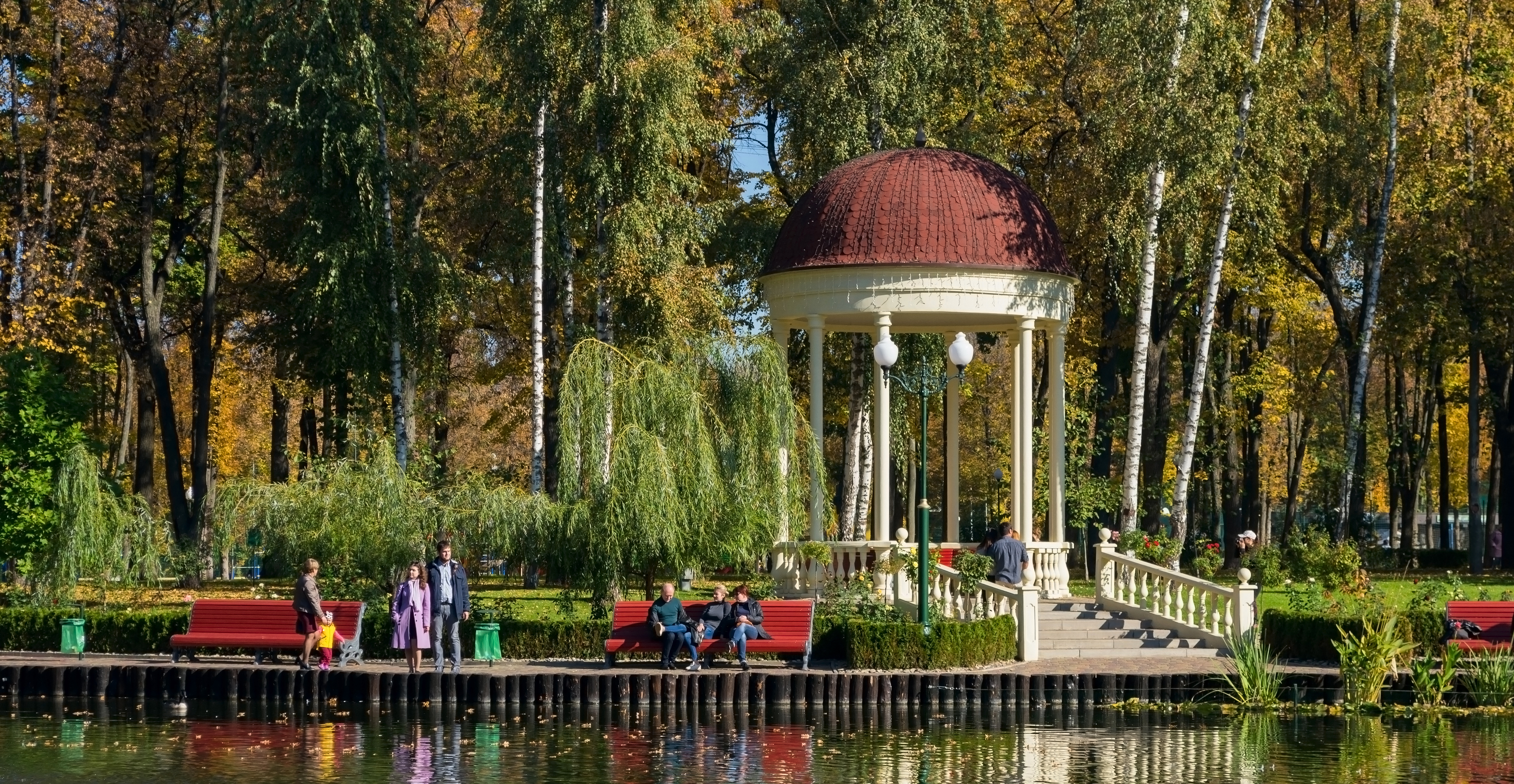 Gazebo in Gorky Park in Kharkiv